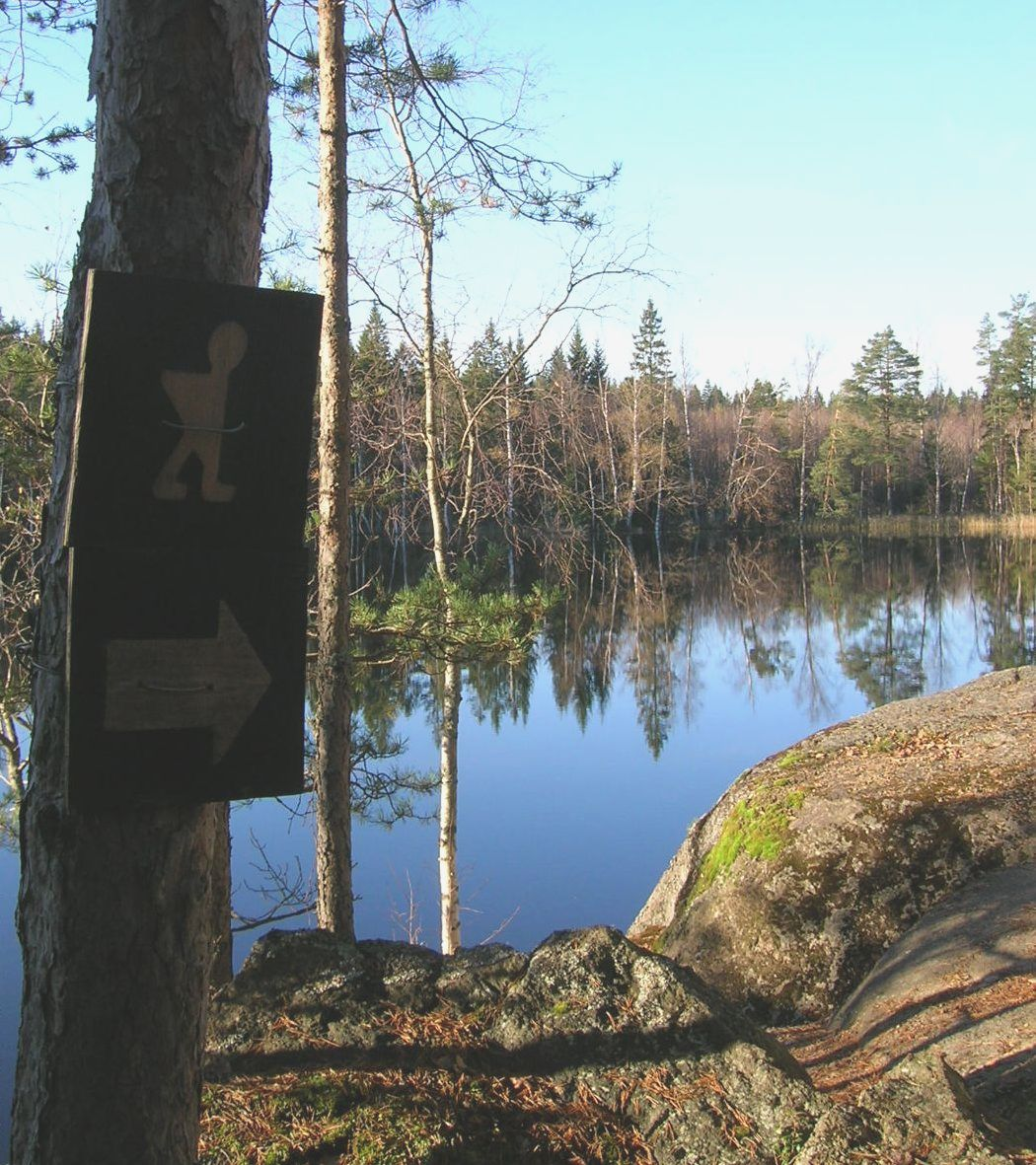 A sign on a hiking path in Loviisa, Southern Finland. Lake Kukuljärvi in the background.